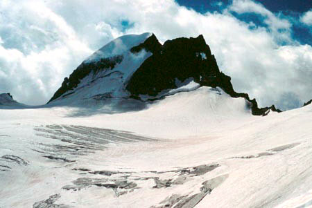 Gannet Peak and Gannett Glacier in the Wind River Range of Wyoming